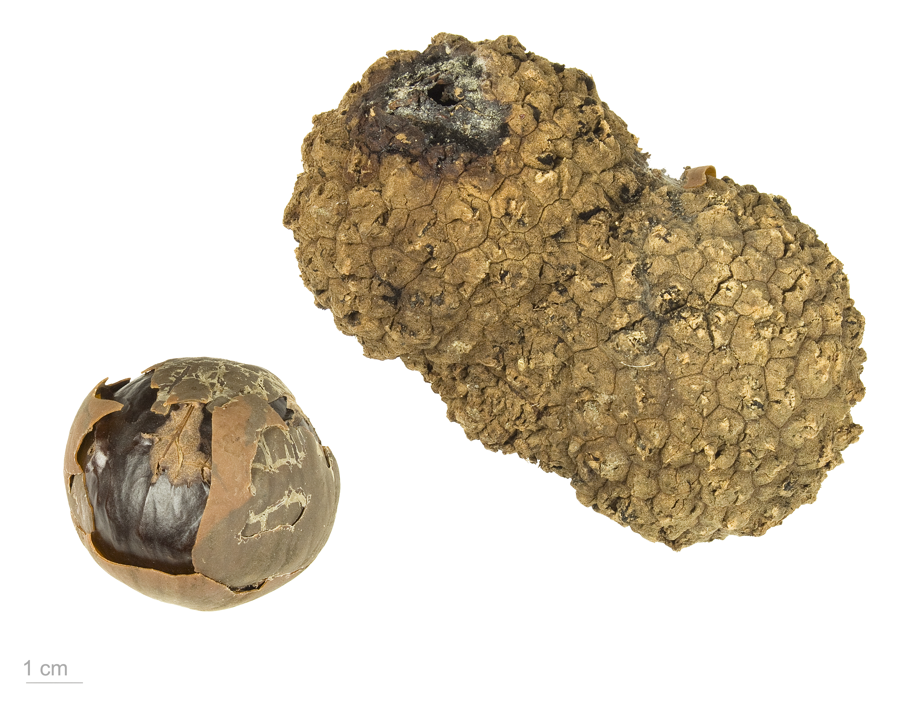 Yolillo palm, fruits and seeds